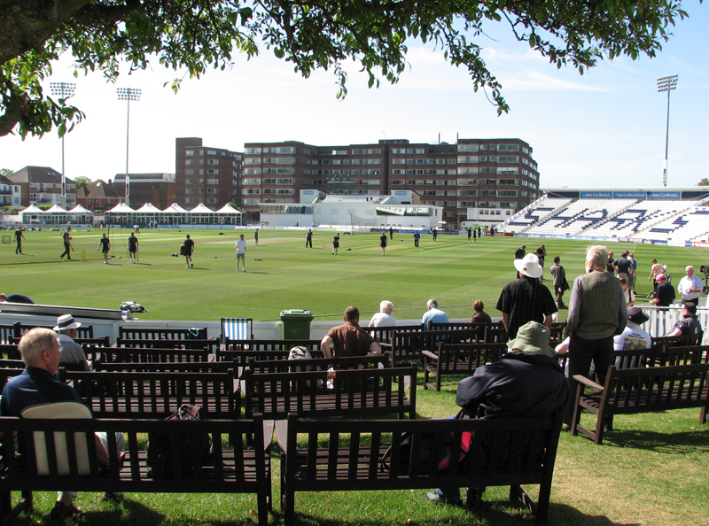 The County Ground, Hove, near to Brighton and Hove, Great Britain.